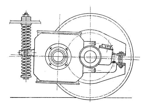 Electric motors